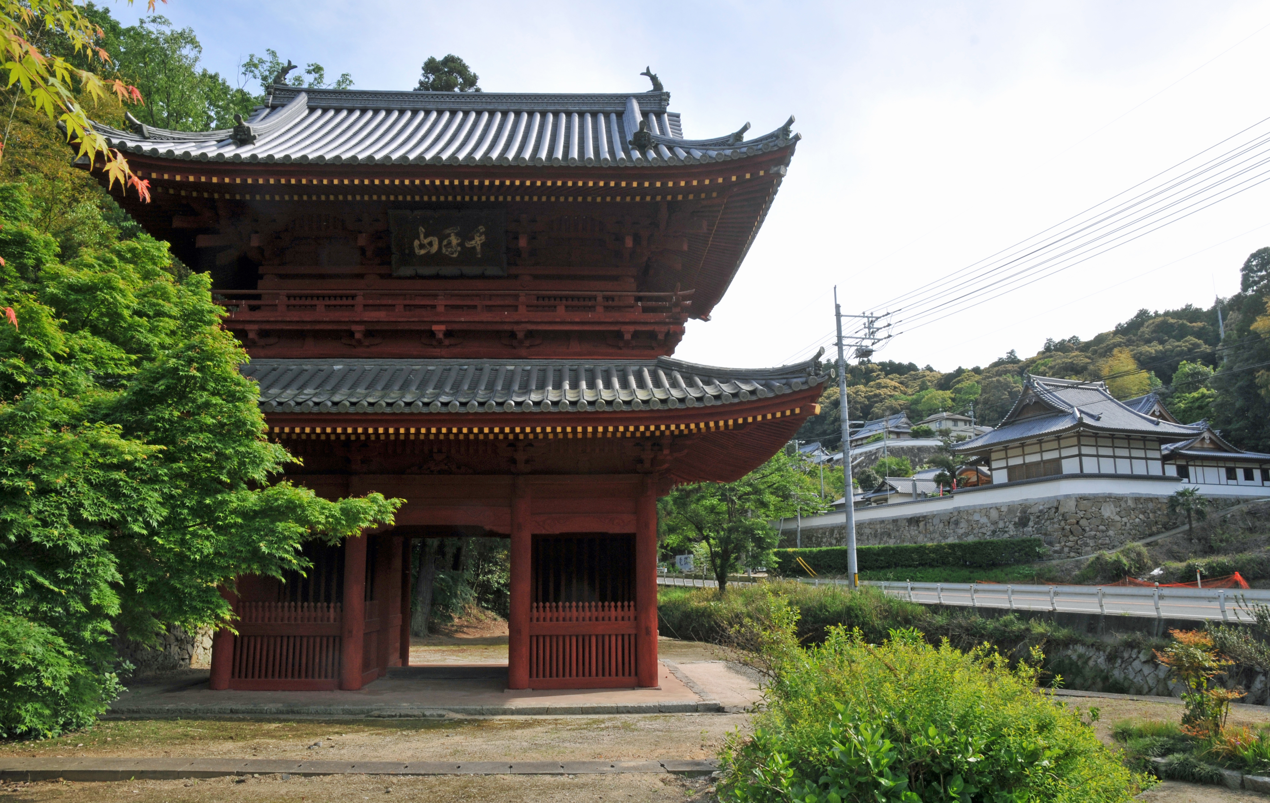 Temple gate and Kōbō-ji view